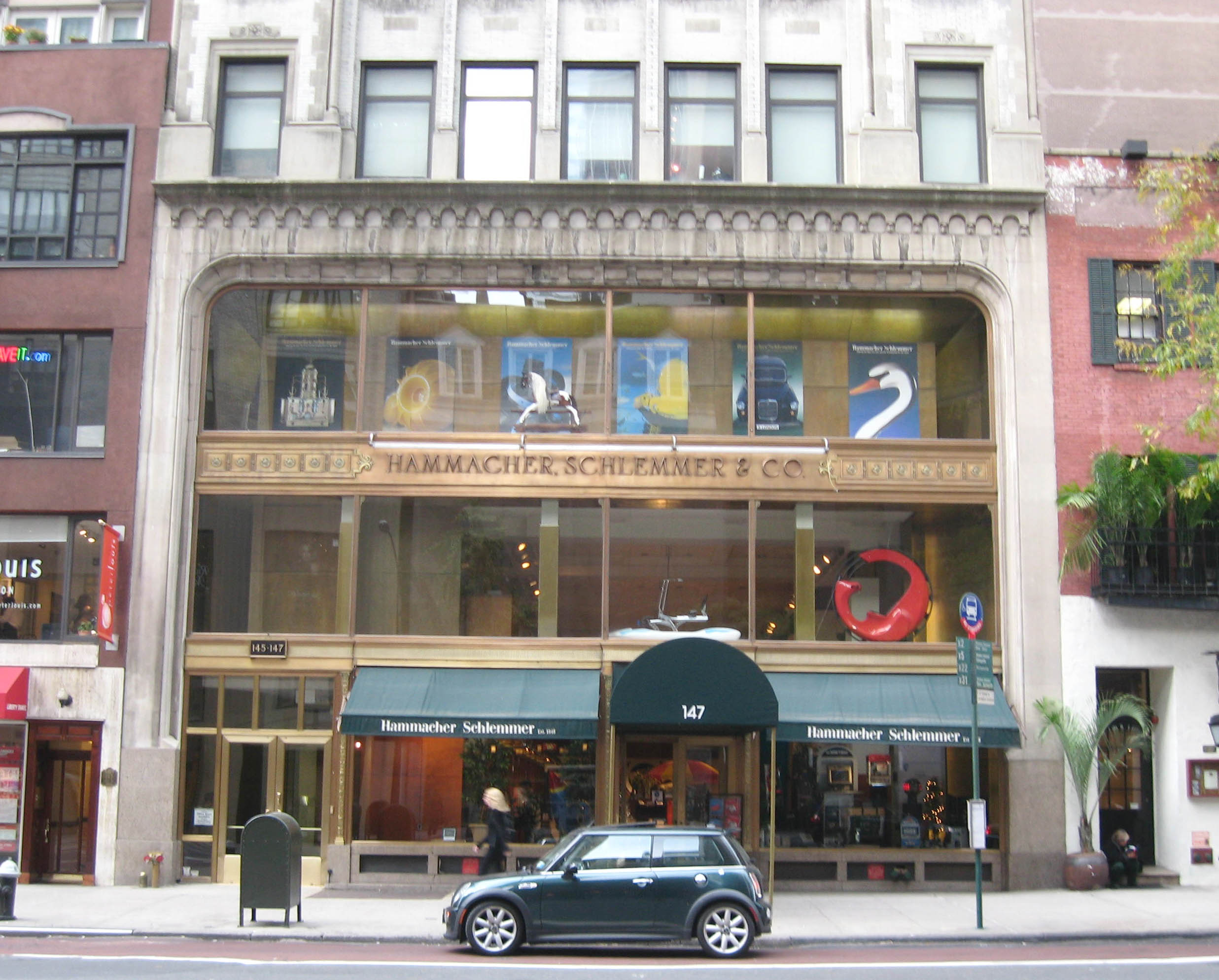 Looking north across East 57th Street at Hammacher Schlemmer on a cloudy afternoon